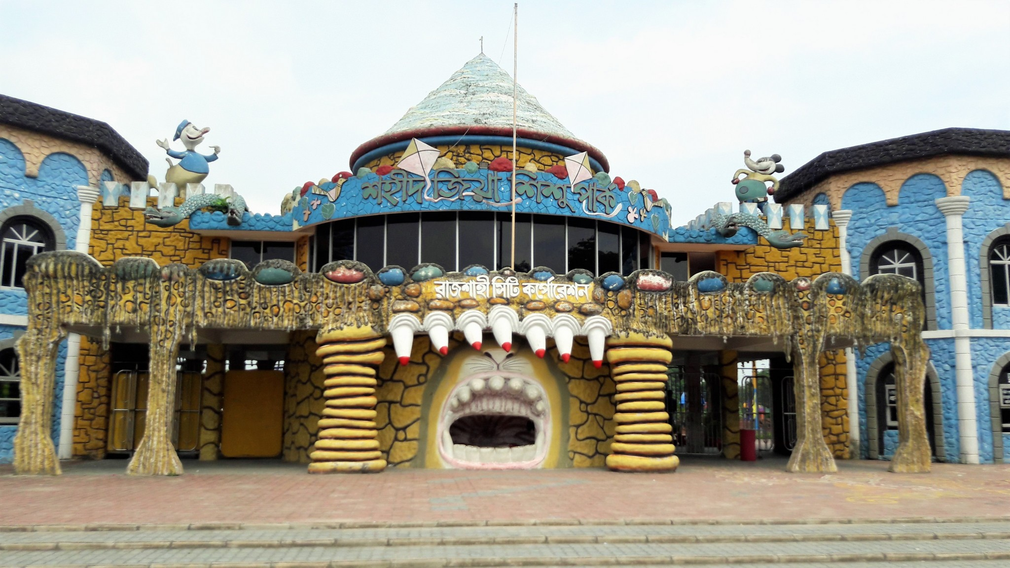 Shahid Zia Shishu Park is one of the public sector children's amusement park in Rajshahi, Bangladesh.